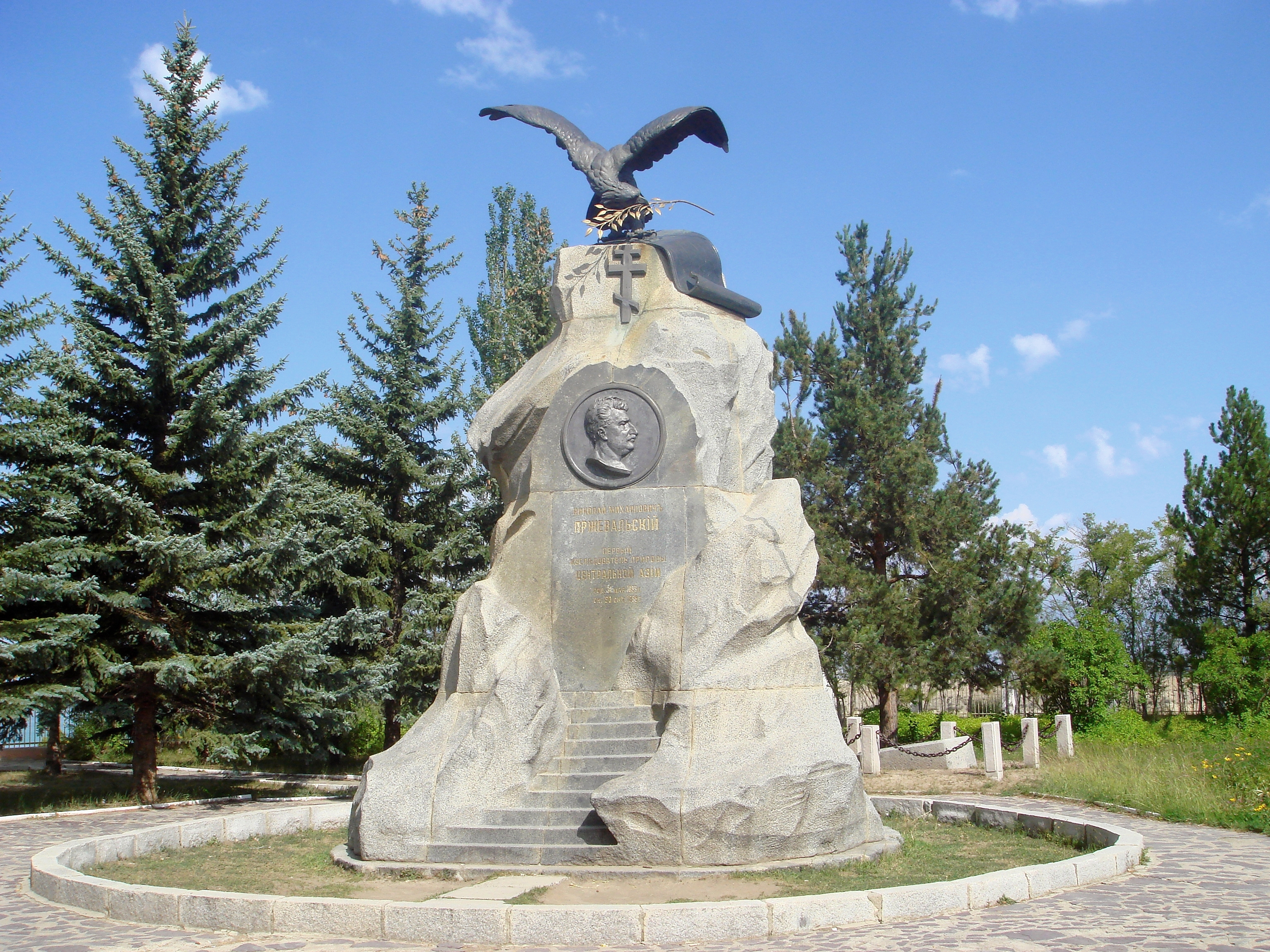 Monument in the premises of Przhevalsky Memorial near Pristan Przhevalsk commemorating Russian explorer Nikolai Mikhaylovich Przhevalsky (Issyk Kul Province, Kyrgyzstan).